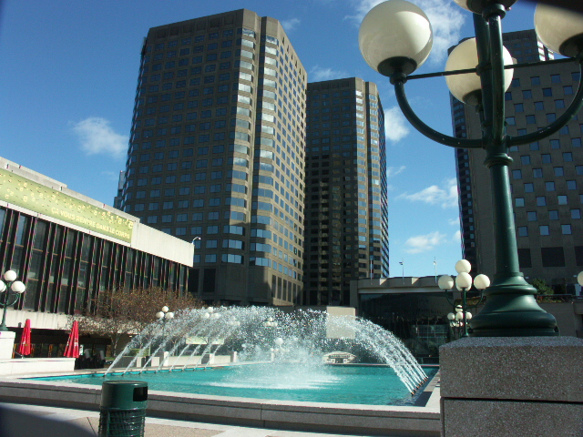 Fontain on the roof of Place des Arts, Montreal. View towards the south, facing Complexe Desjardins. Photo by: User:Gene.arboit